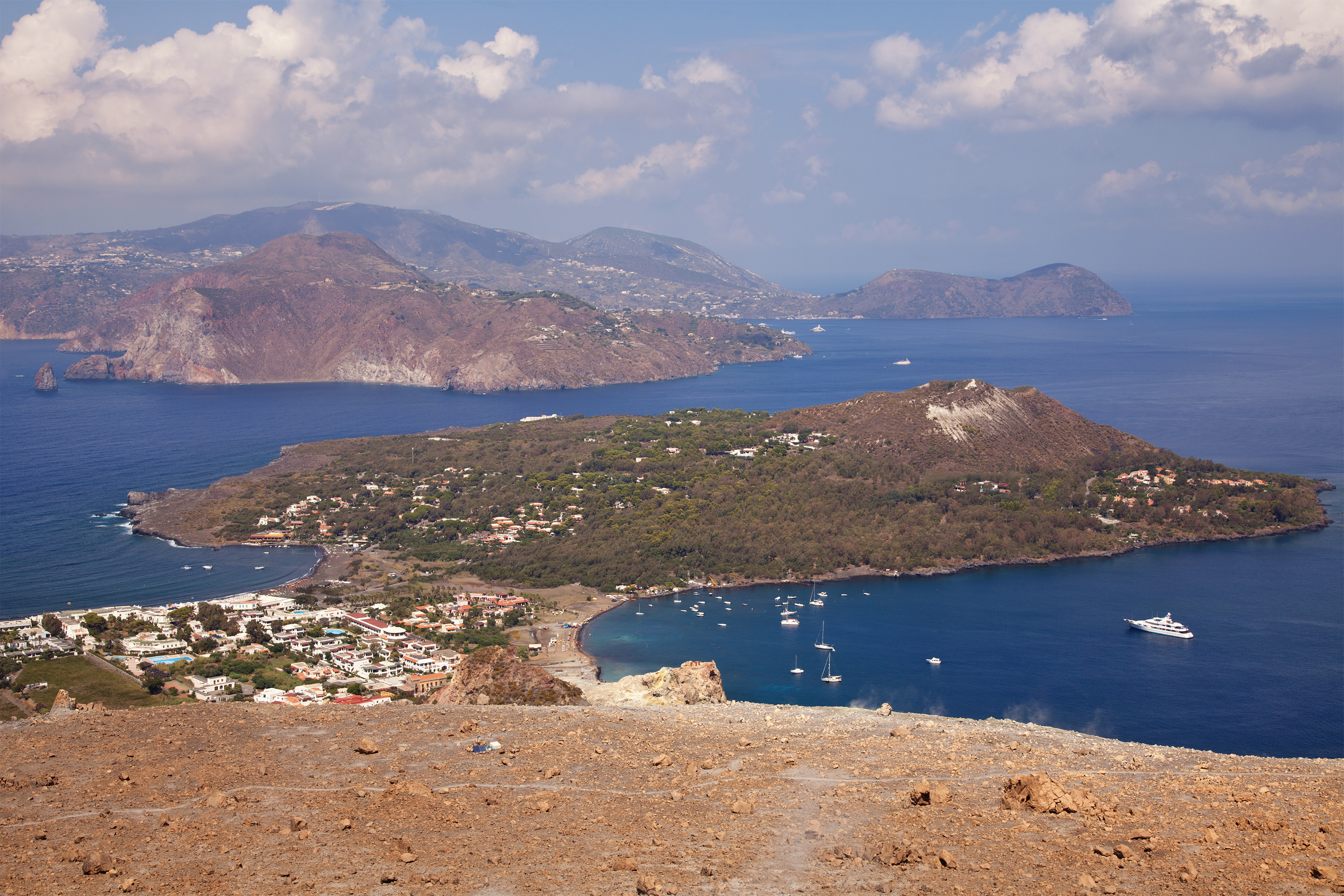 View onto Vulcanello from Vulcano (Aeolian Islands, Italy)